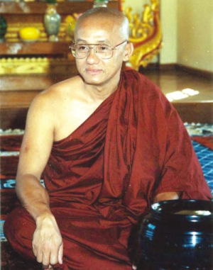 Ven. U Paññya Jota Mahathero (a former Senior Assistant Judge) is very famous and well known Theravada monk in Bangladesh. He was born in Royal Bohmong family at Bandarban, Bagladesh. He served Bangladesh Government as Judge about 8 years. He became Buddhist monk in 1991. He is founder and chief priest of: 1. The World Buddha Sasana Shevaka Sangha, Bangladesh 2. Paññya Passanarama Buddhist Monastery, Bandarban Sadar, Bandarban Hill District, Bangladesh 3. Khyaungwa Kyaung Raja Vihara (Chief priest), Bandarban Sadar, Bandarban Hill District, Bangladesh 4. Maha shuka Chutongbrae Buddha Dhatu Zadi (Golden Temple), Pulpara, Bandarban Sadar, Bangladesh 5. Dhatu Zadi Monastery, Pulpara, Bandarban Sadar, Bandarban Hill District, Bangladesh 6. Sasana Vaddhana Pariyatti Kyaung (Religious school) 7. Be Happy Learning Centre (Orphanage & Free school), Bandarban Hill District, Bangladesh 8. Swe Yenggya Icchasaya Mohiddijey Goyidawgreeng, Bangladesh 9. Bangladesh Buddhist Monastery, Yangoon, Myanmar 10. Bangladesh Buddhist Monastery, Maung Daw, Arakan State, Myanmar